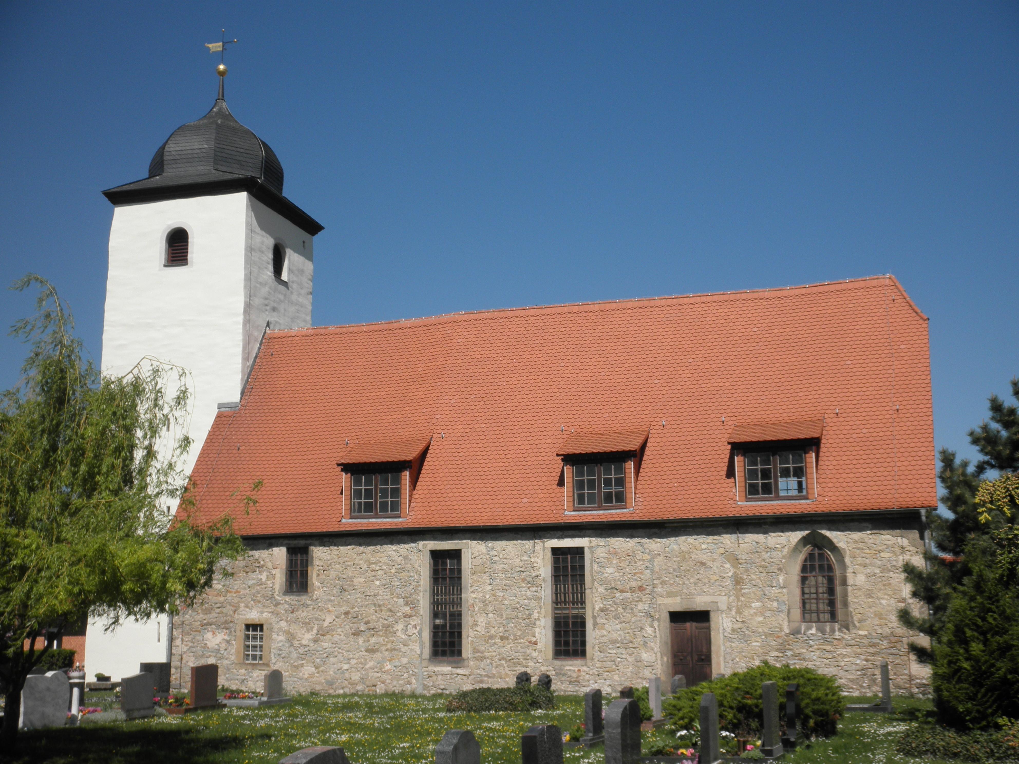 Church in Großmölsen in Thuringia